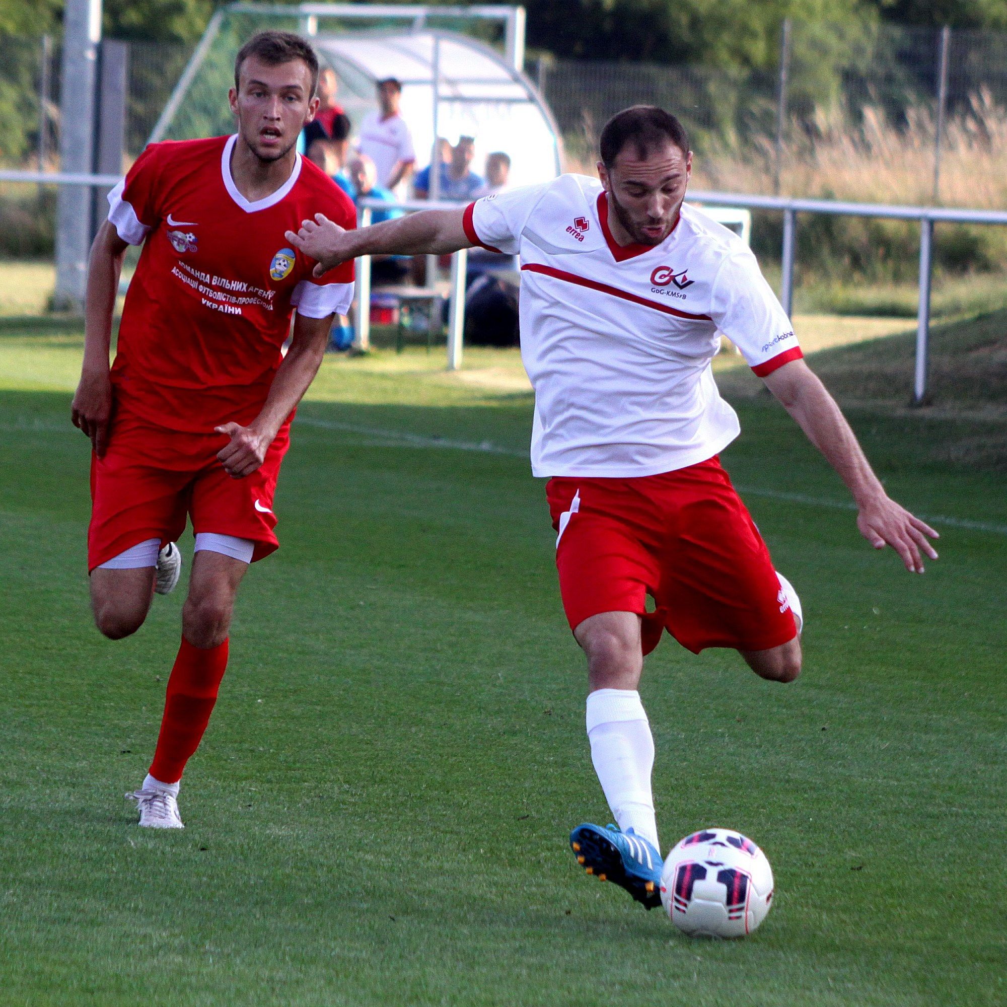 FIFPro Tournament 2015, Match Austria (white shirts) vs. Ukraine (red shirts), 26.06.2015 in Draßburg. – The photo shows Atilla Erel (Team Austria, right).